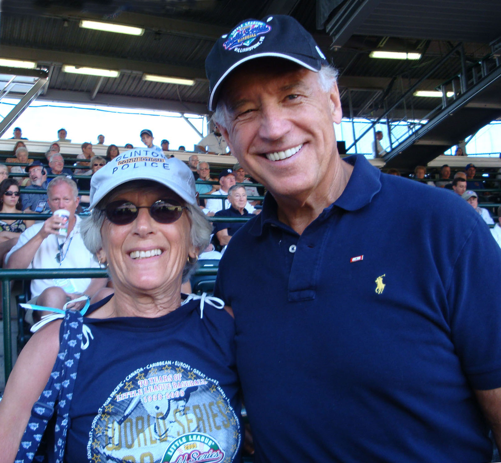 Peggy Adler with Vice President Joe Biden at the Little League World Series